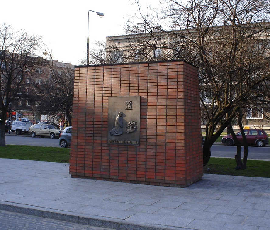 The monument on Willy Brandt Square in Warsaw.